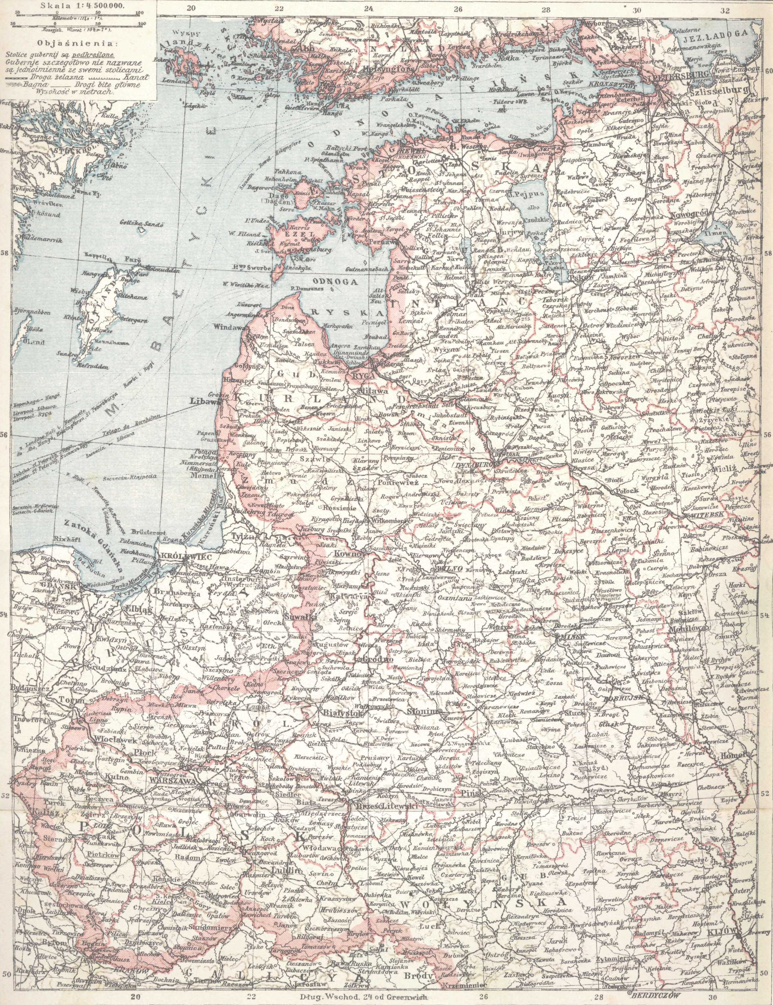 Western Governorships of the Russian Empire and Polish Kingdom in 1902. Map from Olgebrand's Encyclopedia (lithography) printed in Warszawa, 1902